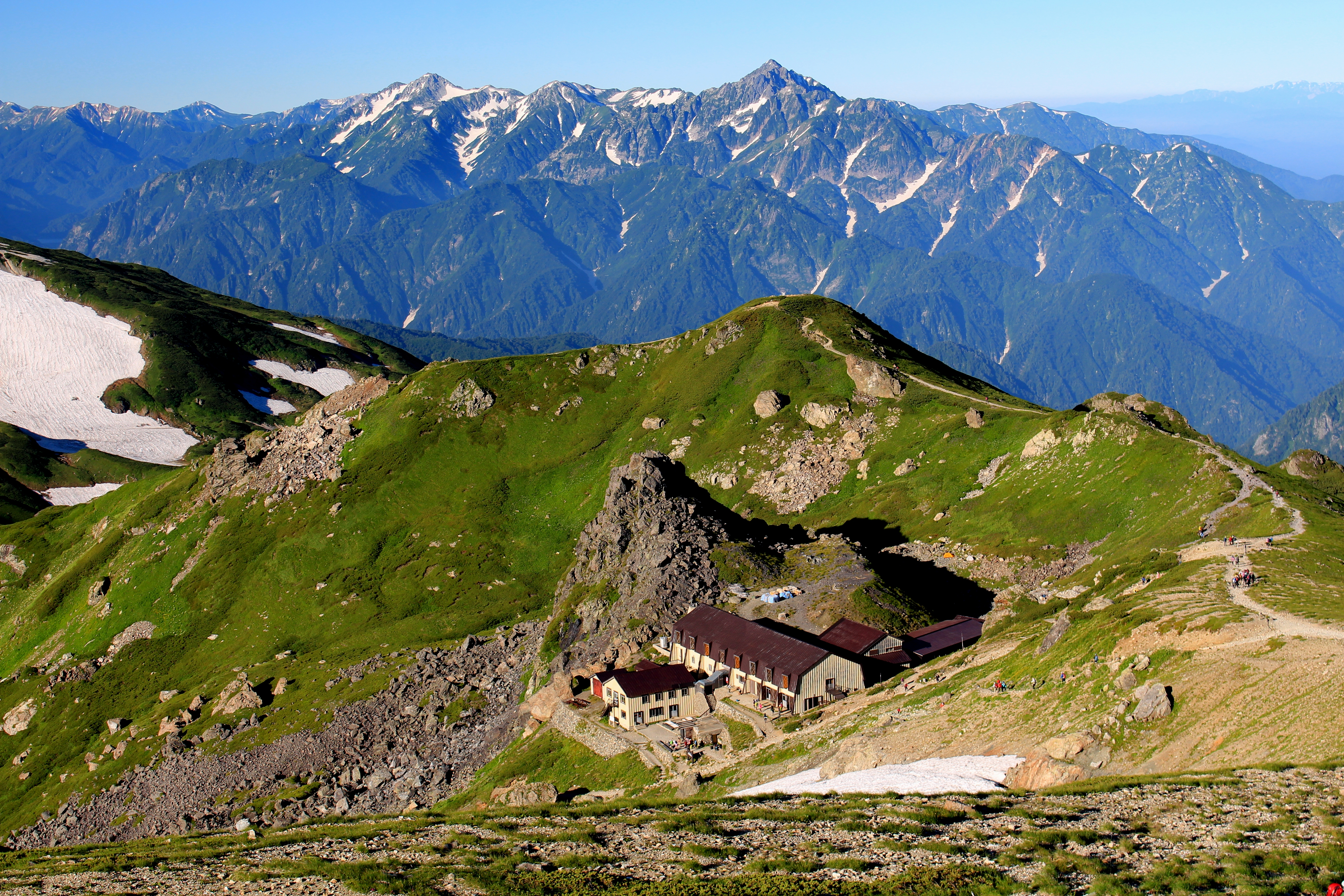 Hakubadake Chojoshukusha and Tateyama Mountains seen from Mount Shirouma in Hida Mountains, Japan.